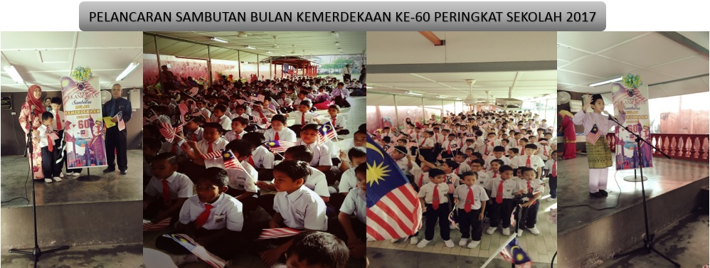 PELANCARAN